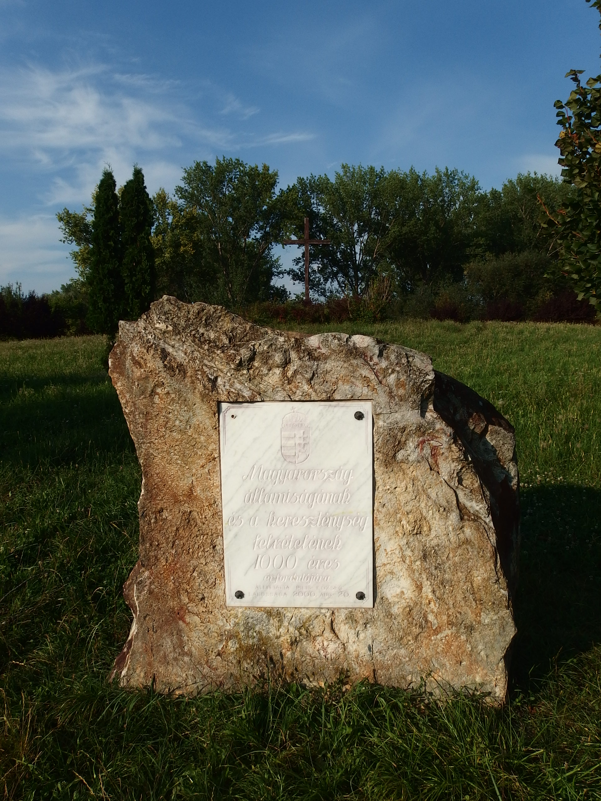 State Millenium memory stone at Pilis town, Hungary